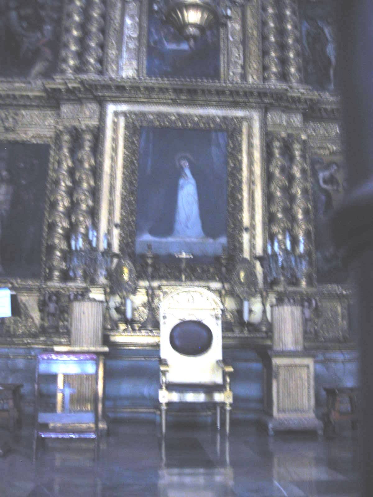 Image of Nuestra Señora de Soledad in its chapel in the Mexico City Cathedral